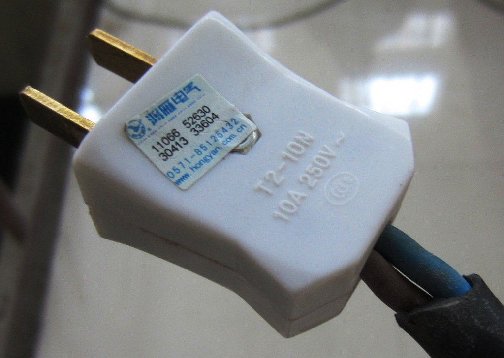 A parallel blade non-polarized non-grounding (non-earthing) plug, IEC Type A, similar in shape and dimensions to the NEMA 1-15 plug but bearing a 10 Amp 250 volt rating and a CCC safety mark.